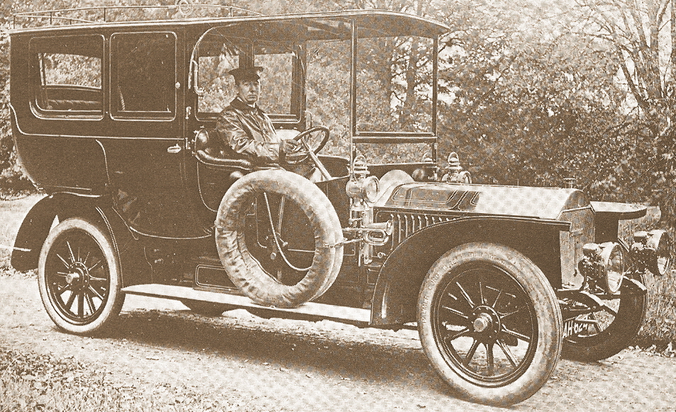 1908 Thames 50 hp